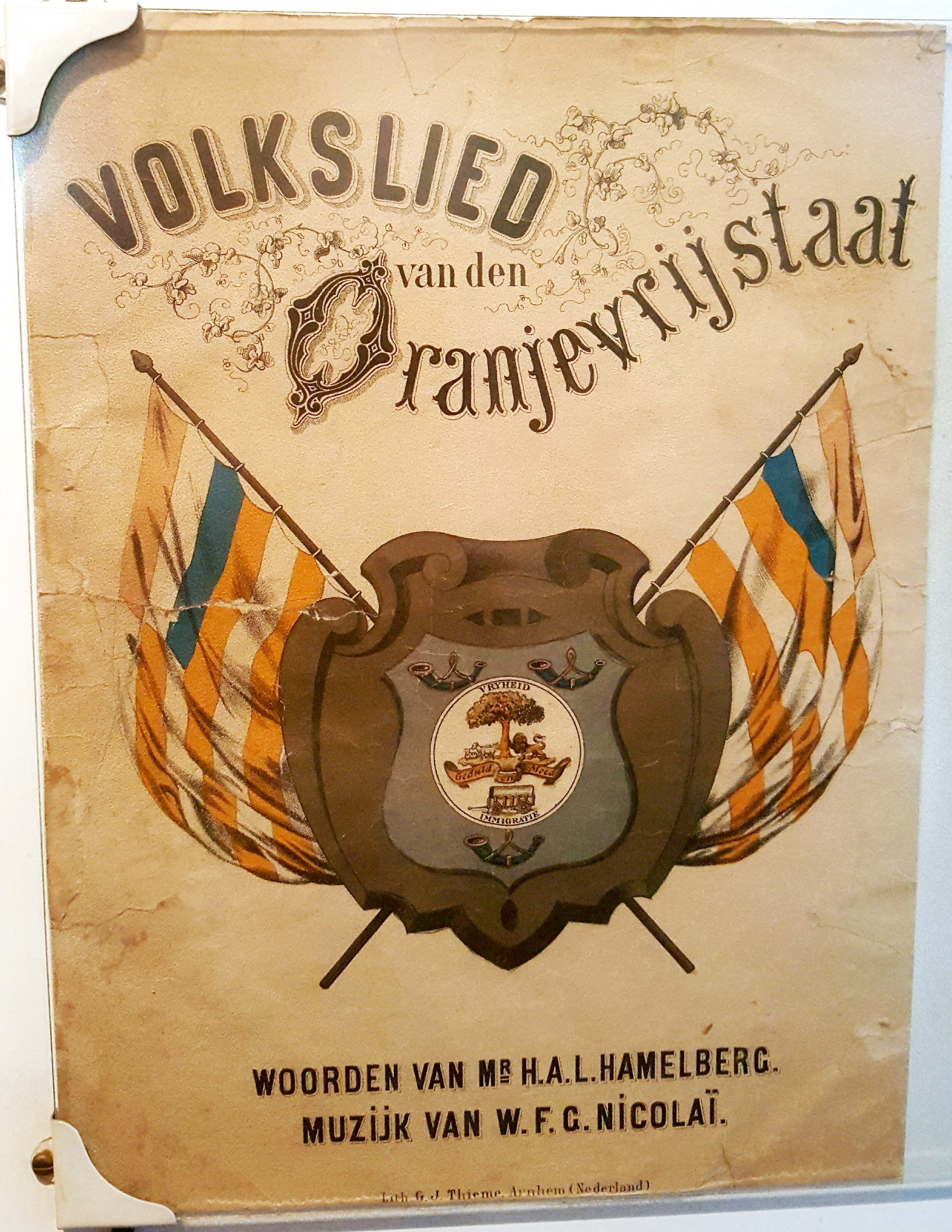 The Cover Page of the National Anthem of the Orange Free State